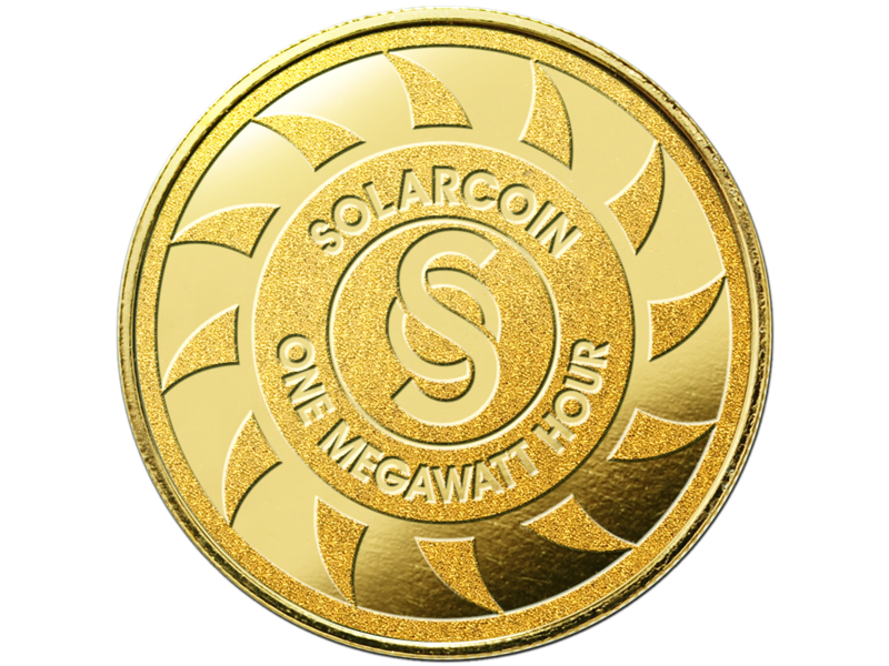 SolarCoin Logo